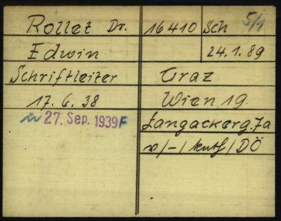 Registration card of Edwin Rollett as a prisoner at Dachau Nazi Concentration Camp. Stamped date is the day of transfer from Dachau to Flossenbürg.